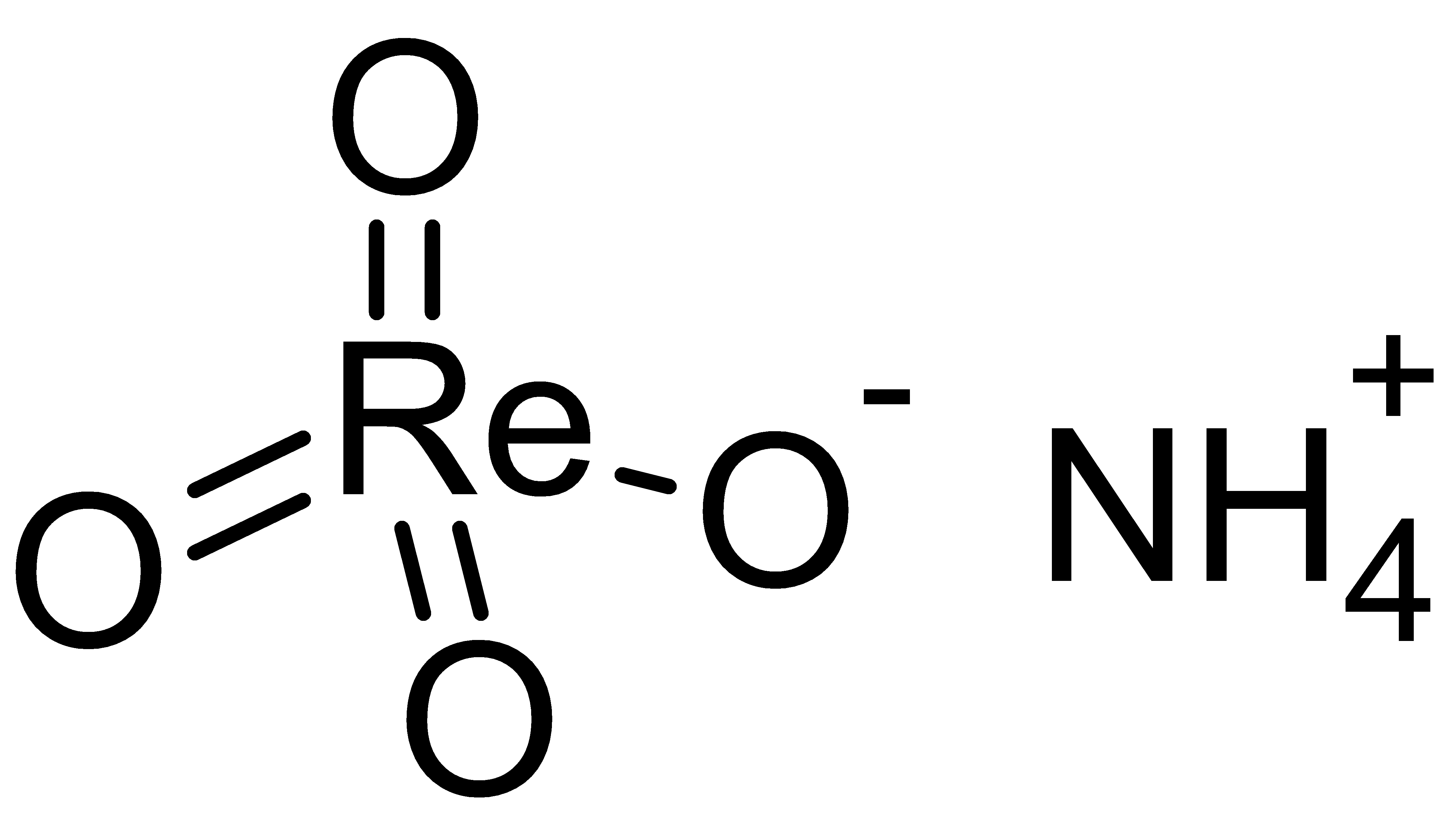 2D model of Ammonium perrhenate.